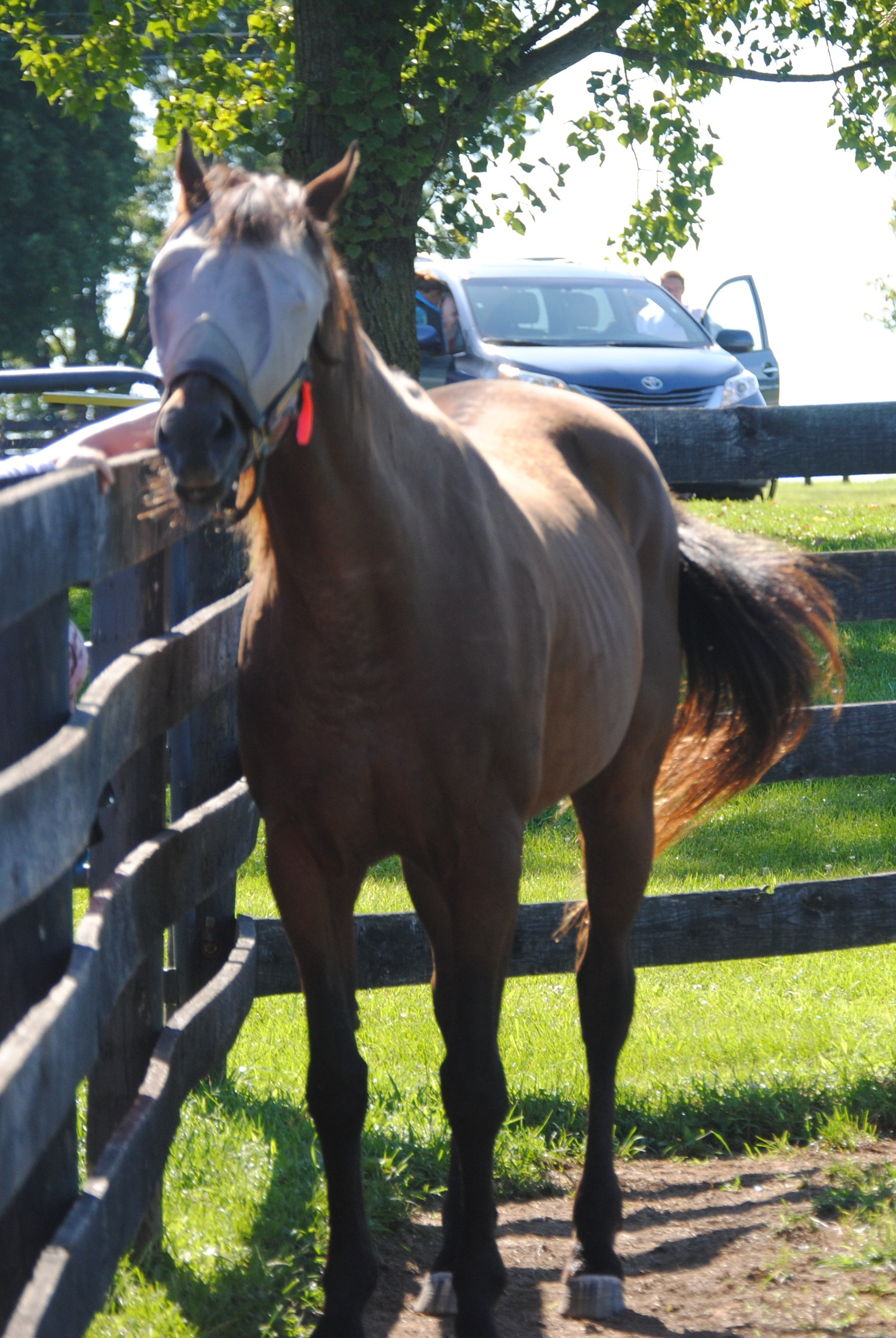 Gulch, aged 31, at Old Friends